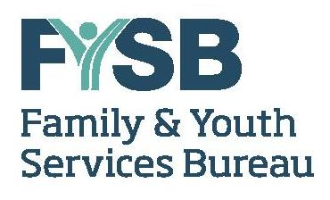 Family and Youth Services Bureau fact sheet